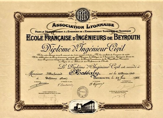 Diploma in Civil Engineering from The French School of Engineering in Beirut- Mahmoud Hessaby in 1922